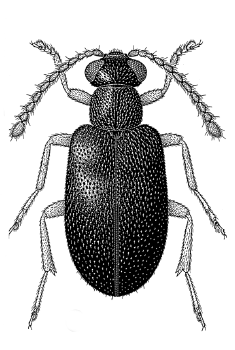 A representative member of the genus Xylophilus drawn by Des Helmore, a former illustrator from Landcare Research.